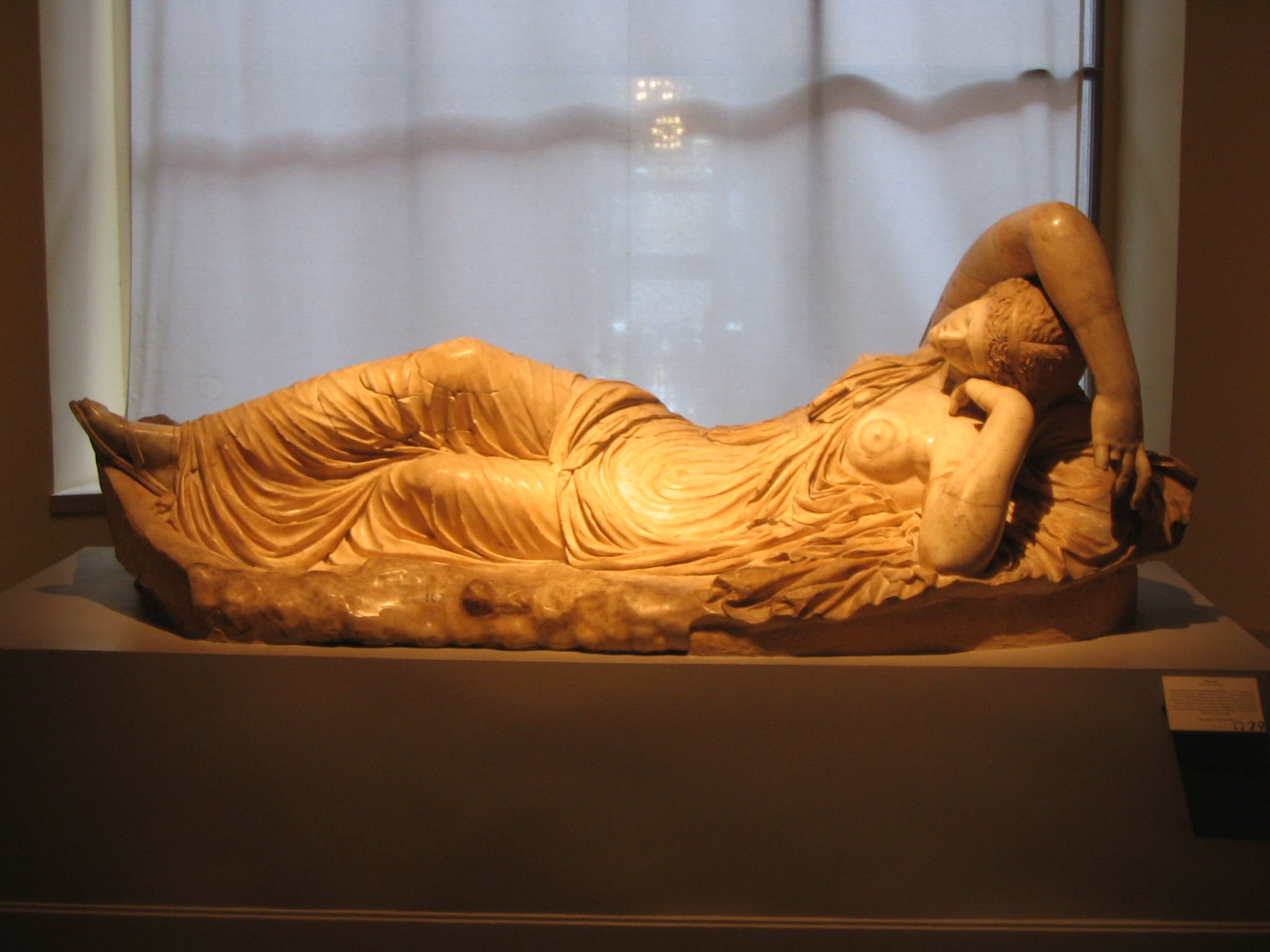 A Roman copy of a Greek original from the 2nd century BC.